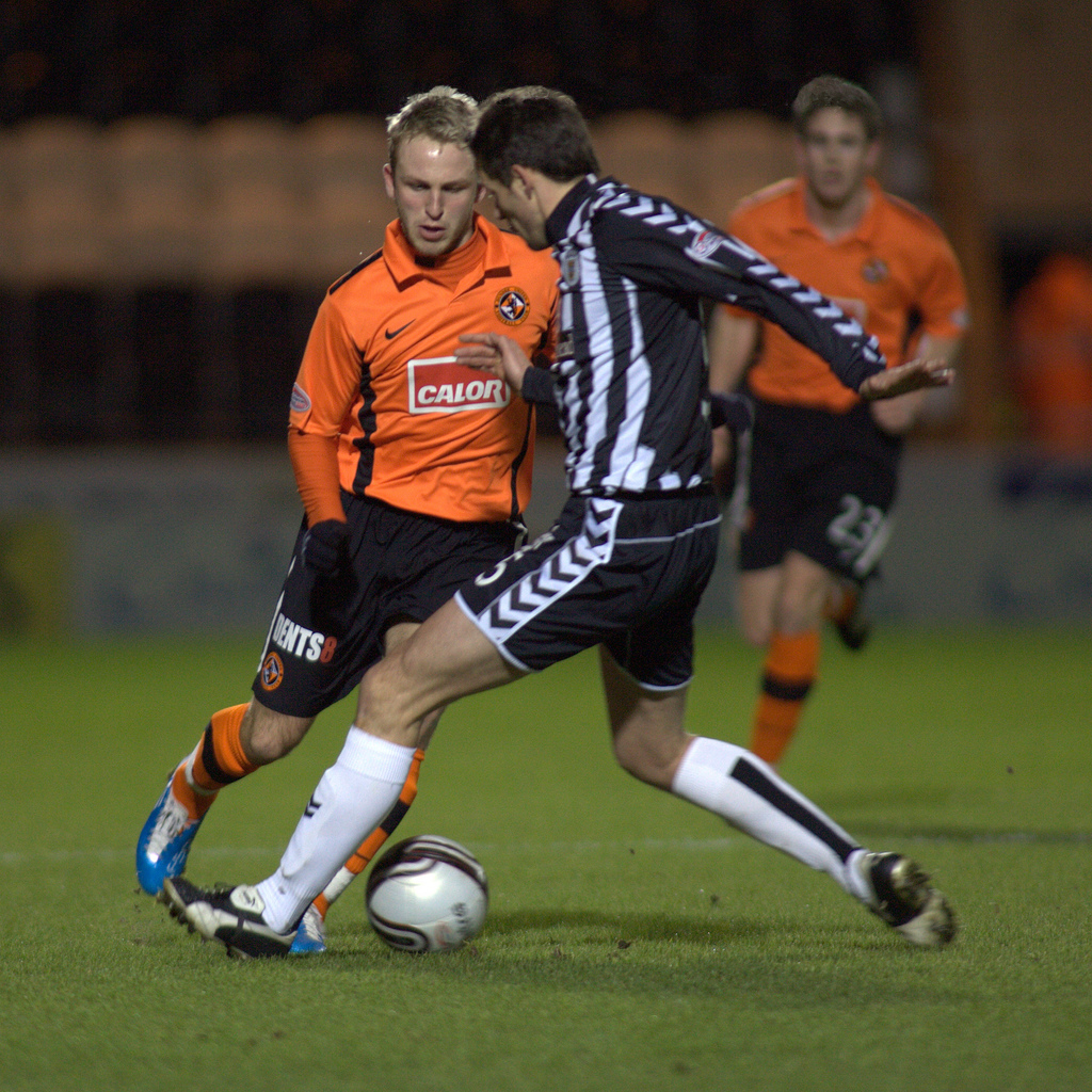 Clydesdale Bank Scottish Premier League - St Mirren vs Dundee Utd St Mirren's Lee Mair halts the run of Dundee Utd's Johnny Russell, at St Mirren Park, Paisley. Picture : Alasdair Middleton/Universal News & Sport (Scotland) Wednesday 26th January 2011 Universal News and Sport (Europe) All pictures must be credited to 0844 884 51 22